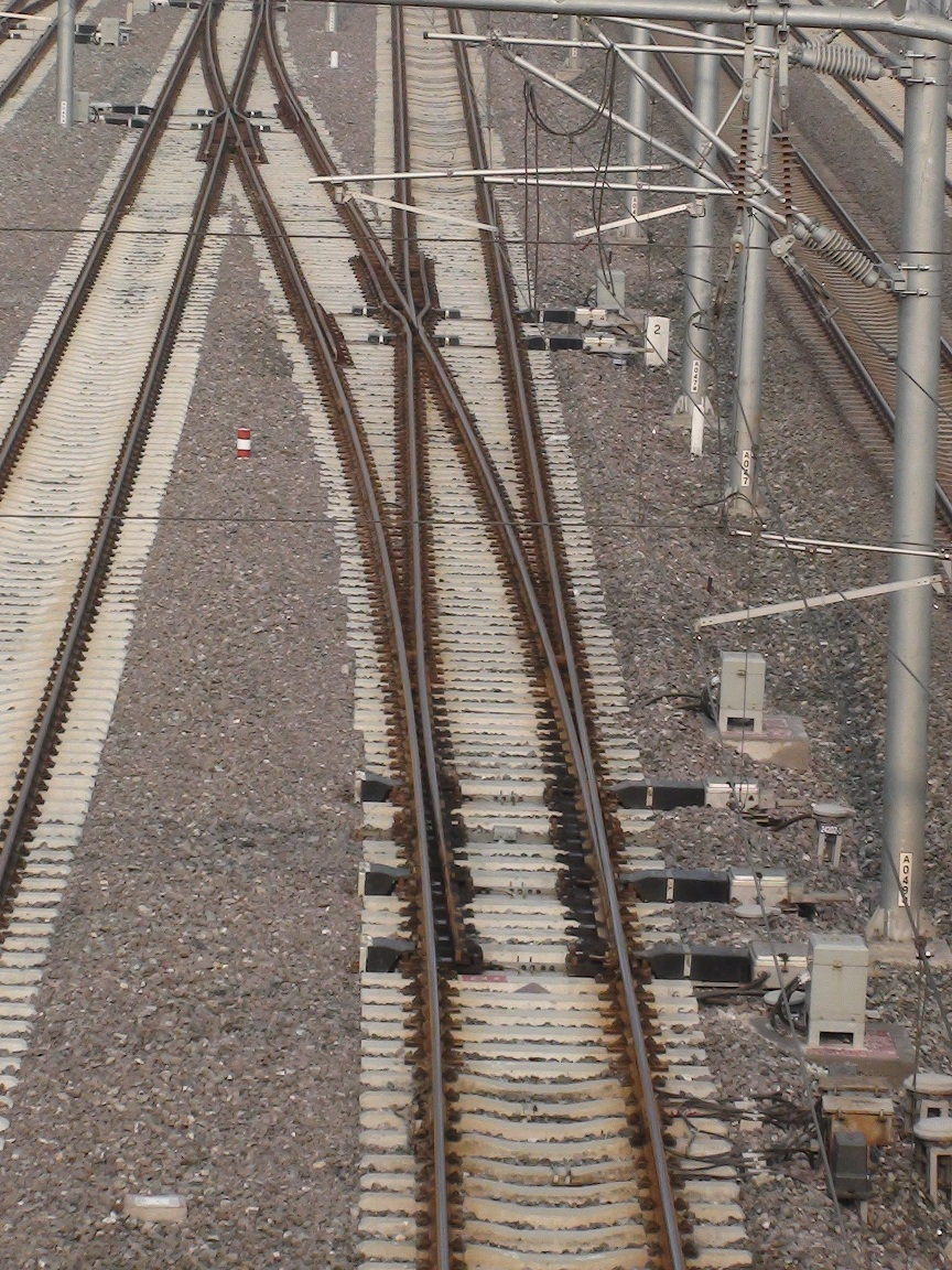 Railroad turnout or railway point at Beijing-South railway station, China.